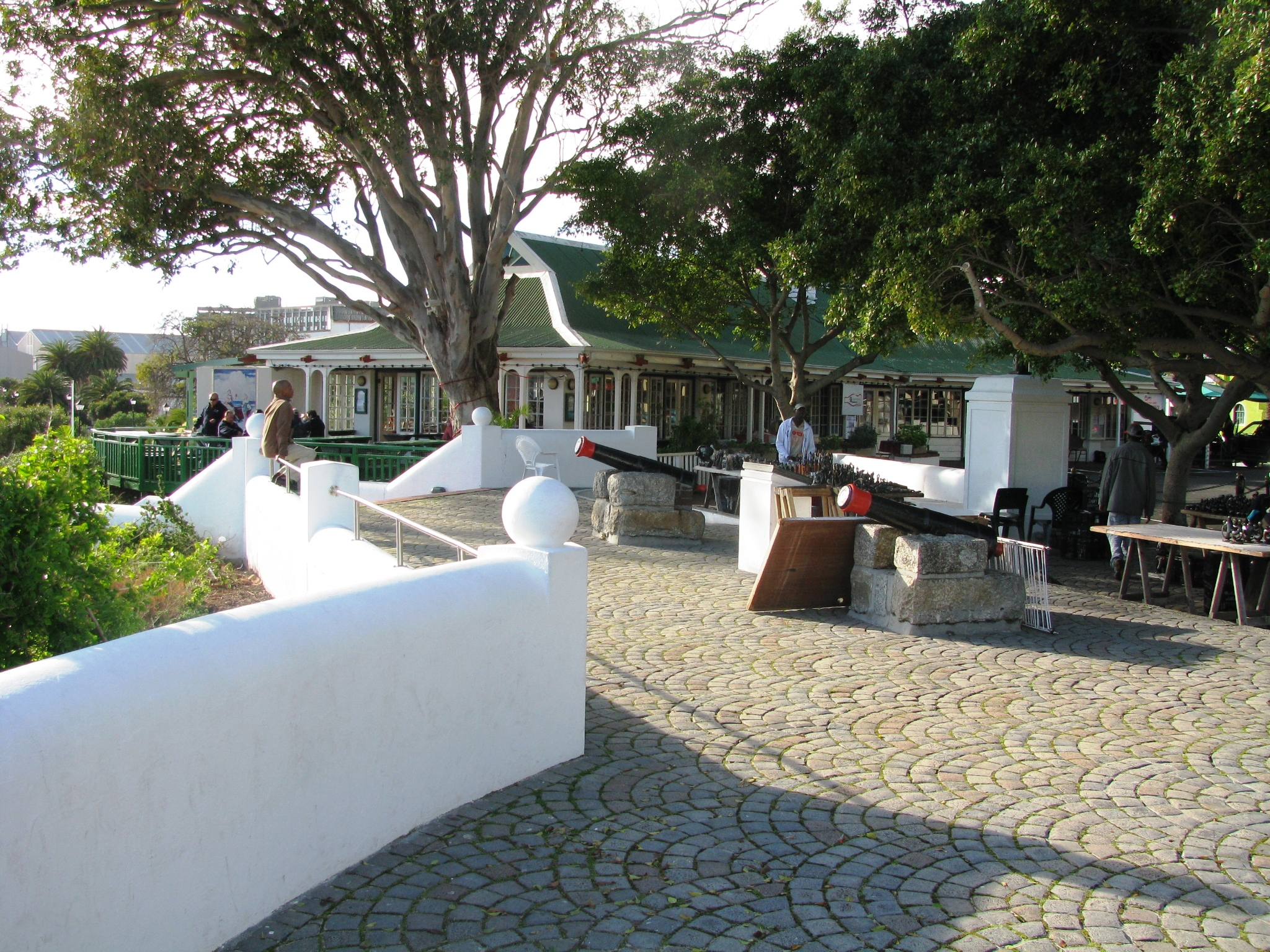 Jubilee Square, Simon's Town